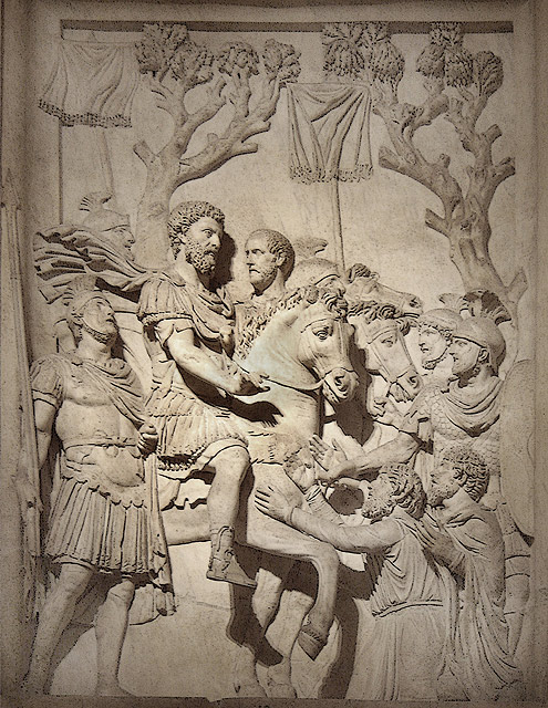 Emperor Marcus Aurelius (161-180 AD) shows his clemency towards the vanquished after his success against Germanic tribes. Bas-relief from the Arch of Marcus Aurelius, Rome, now in the Capitoline Museum in Rome.